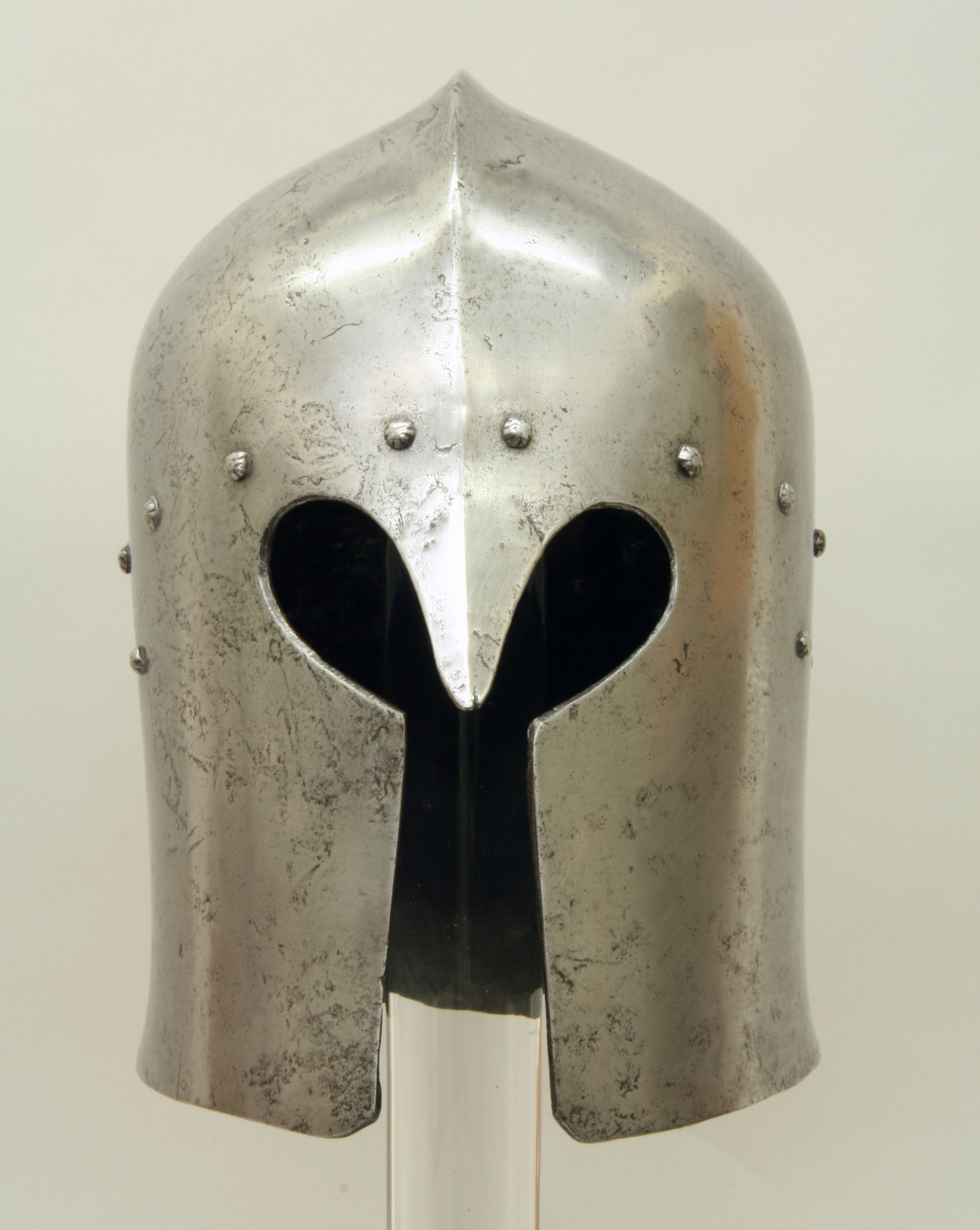 Italian, Brescia; Barbute; Helmets